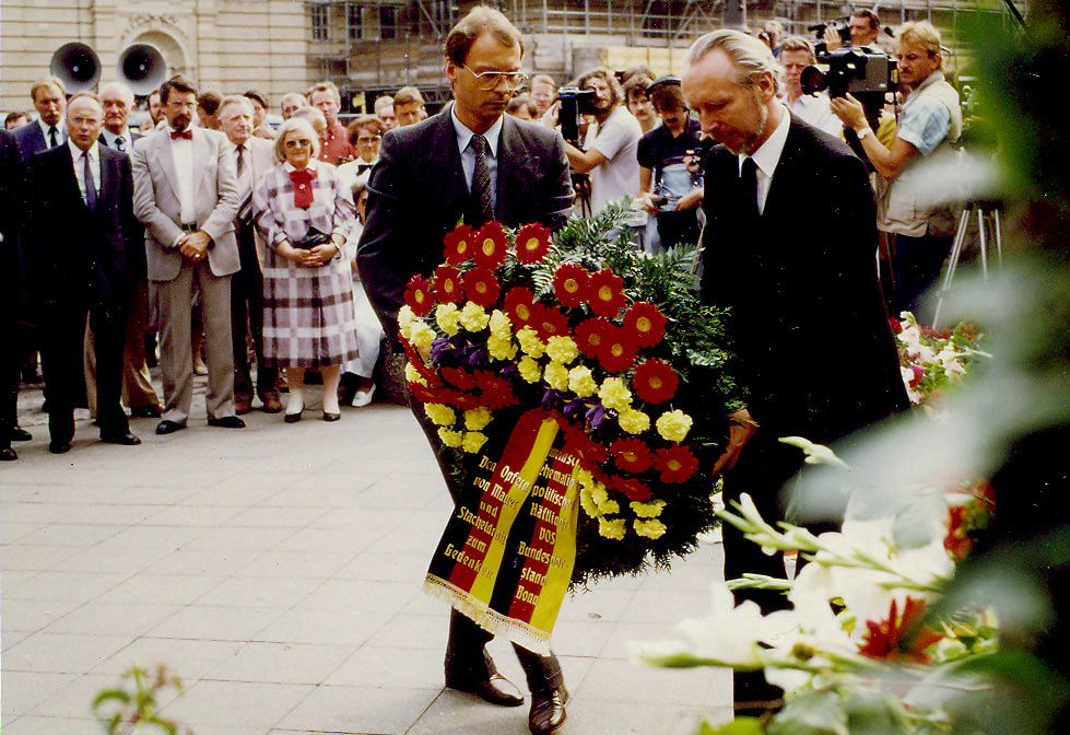 Officials lay wreaths to mark the 25th Anniversary of the Berlin Wall in August, 1986. Photograph by Nancy Wong.